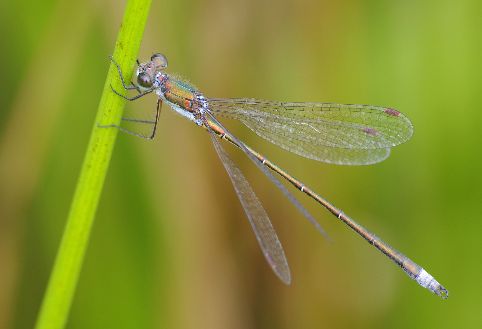 The Small Spreadwing, Lestes virens vestalis, old male specimen.